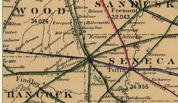 Fostoria, Ohio and surrounding counties railroad map for 1880. Portion of H. Sabine's Ohio railroad map published in 1882.